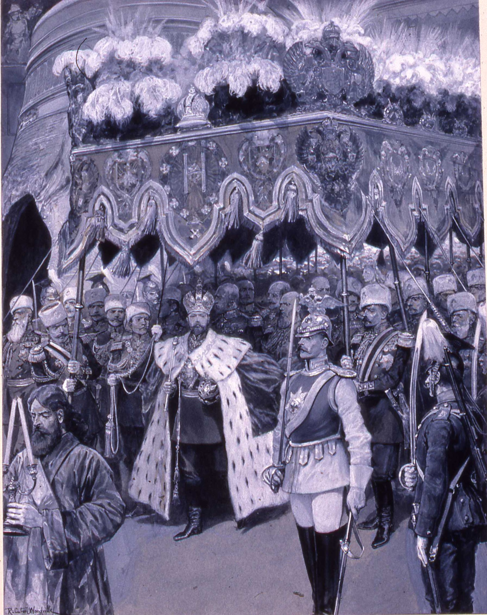 The Coronation of the Emperor Nicholas II: the newly-crowned Emperor passing the Great Bell in Moscow, 26 May 1896 DM 5942: illustrator's drawing. The Chevalier Garde on right and a cossack royal guard. Signed and dated.